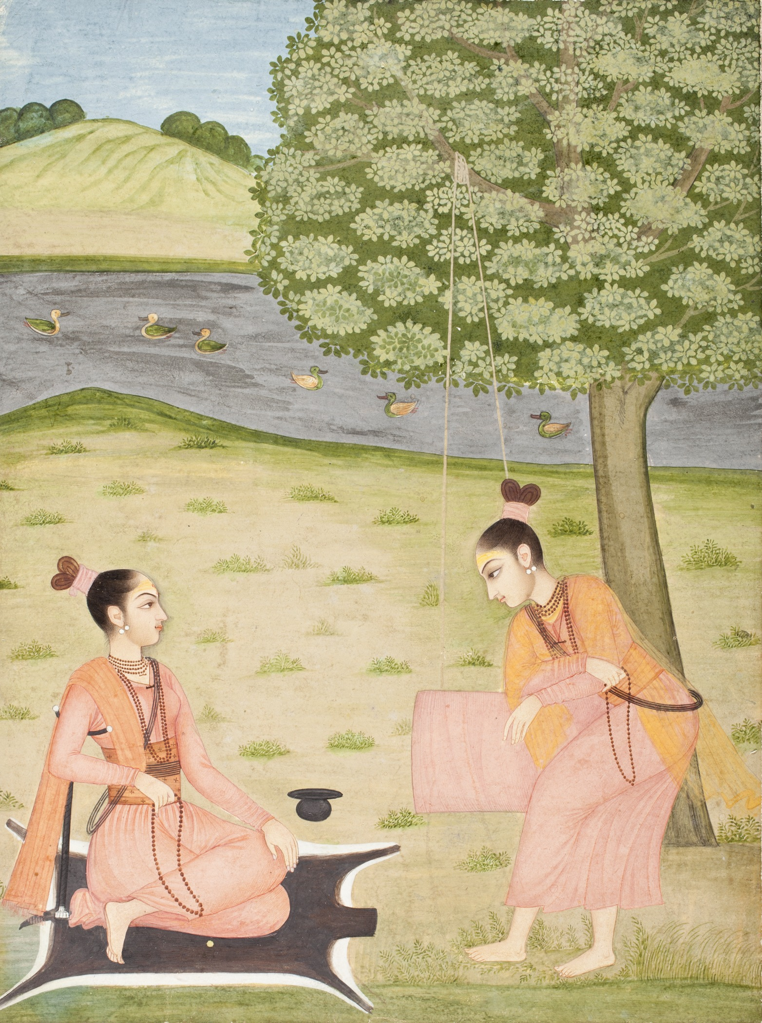 India, Rajasthan, Bikaner, circa 1730-1740 Drawings; watercolors Opaque watercolor on paper 6 7/8 x 5 1/8 in. (17.46 x 13.02 cm) Gift of the Joseph B. and Ann S. Koepfli Trust in honor of Dr. Pratapaditya Pal (M.2011.156.4) South and Southeast Asian Art Currently on public view: Ahmanson Building, floor 4